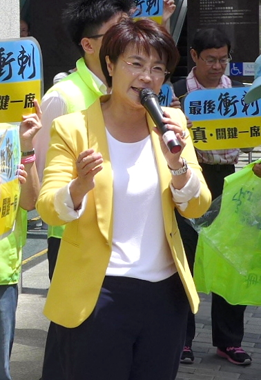 Christine Fong Kwok-shan